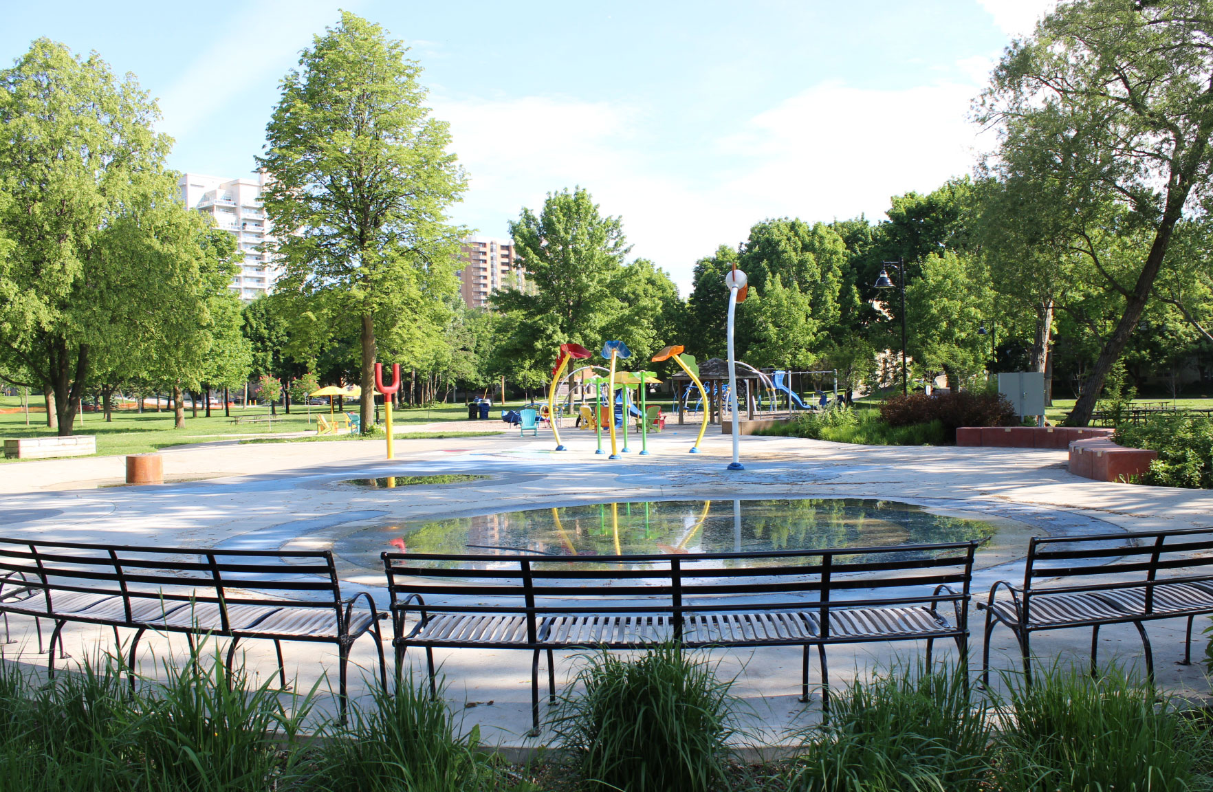 This children's play area is the newest addition to Marie Curtis Park, which is enjoyed not only by Etobicoke and Mississauga residents, but also by visitors across Greater Toronto Area. This playground is on the east side of Etobicoke Creek in Toronto.